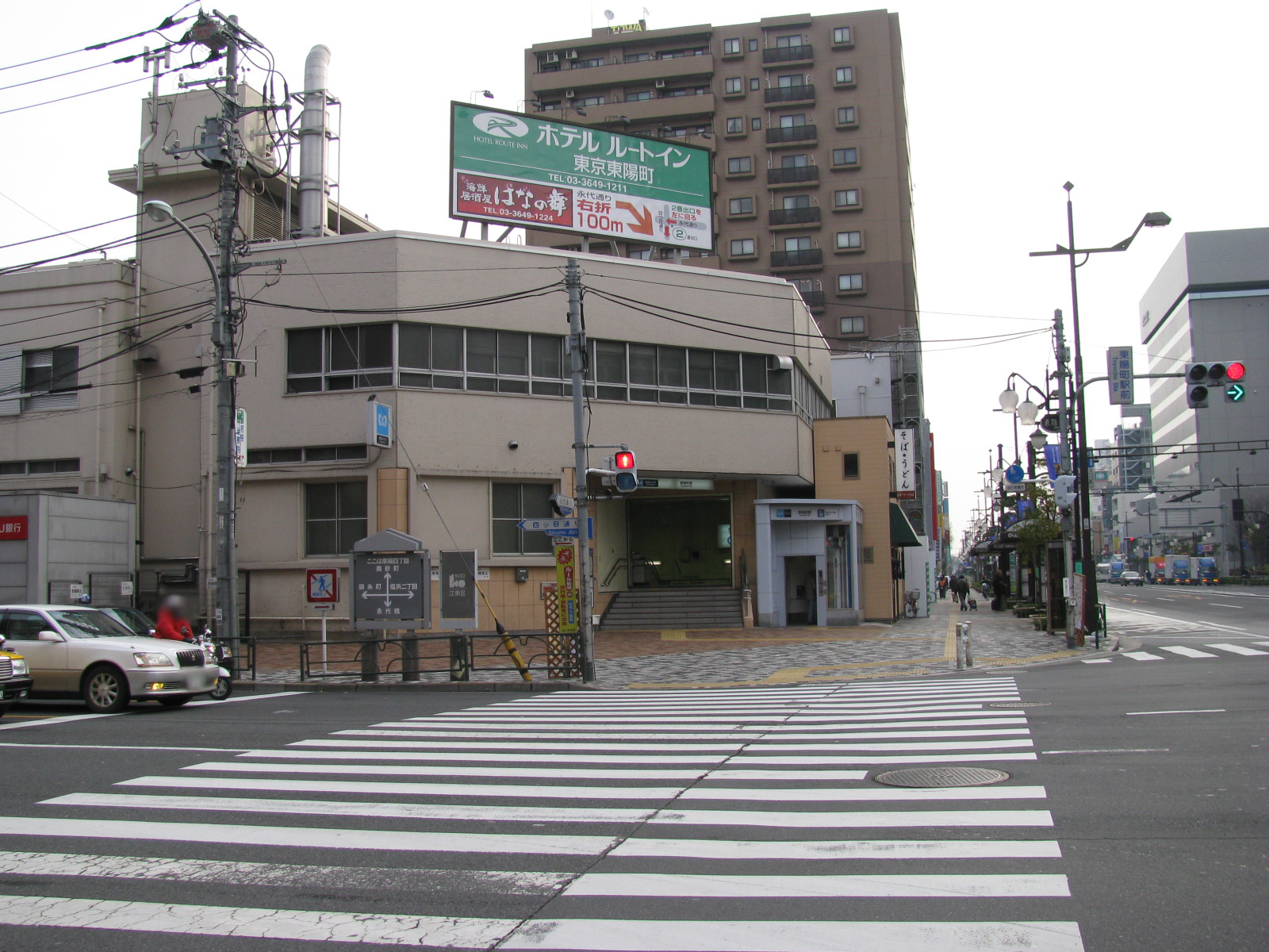 Toyocho station on Tokyo Metro Tozai line